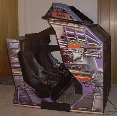 T-Mek cabinet personal digital photograph of personal property